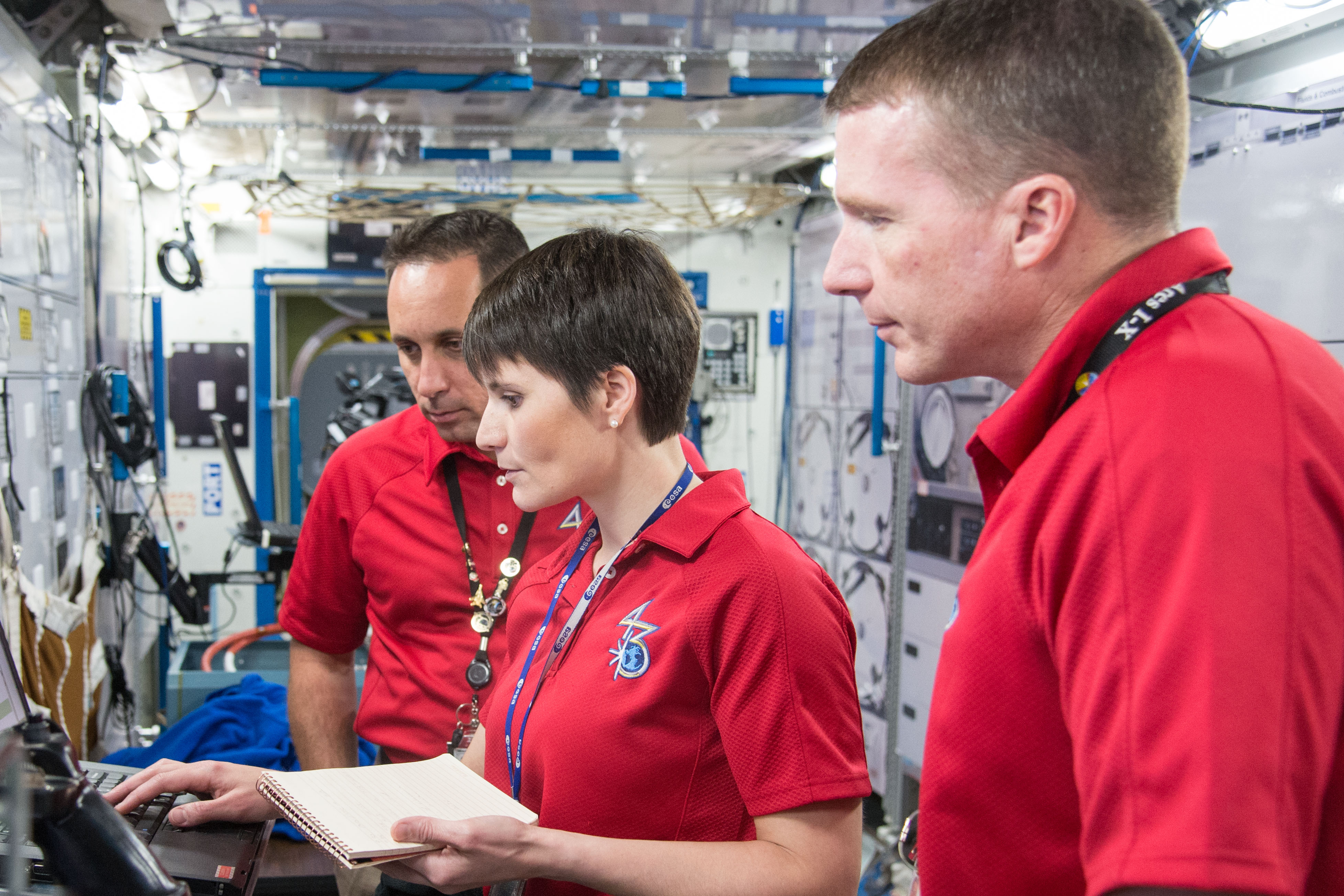 NASA astronaut Terry Virts (foreground), Expedition 42 flight engineer and Expedition 43 commander; along with European Space Agency astronaut Samantha Cristoforetti and Russian cosmonaut Anton Shkaplerov, both Expedition 42/43 flight engineers, participate in a routine operations training session in an International Space Station mock-up/trainer in the Space Vehicle Mock-up Facility at NASA's Johnson Space Center.